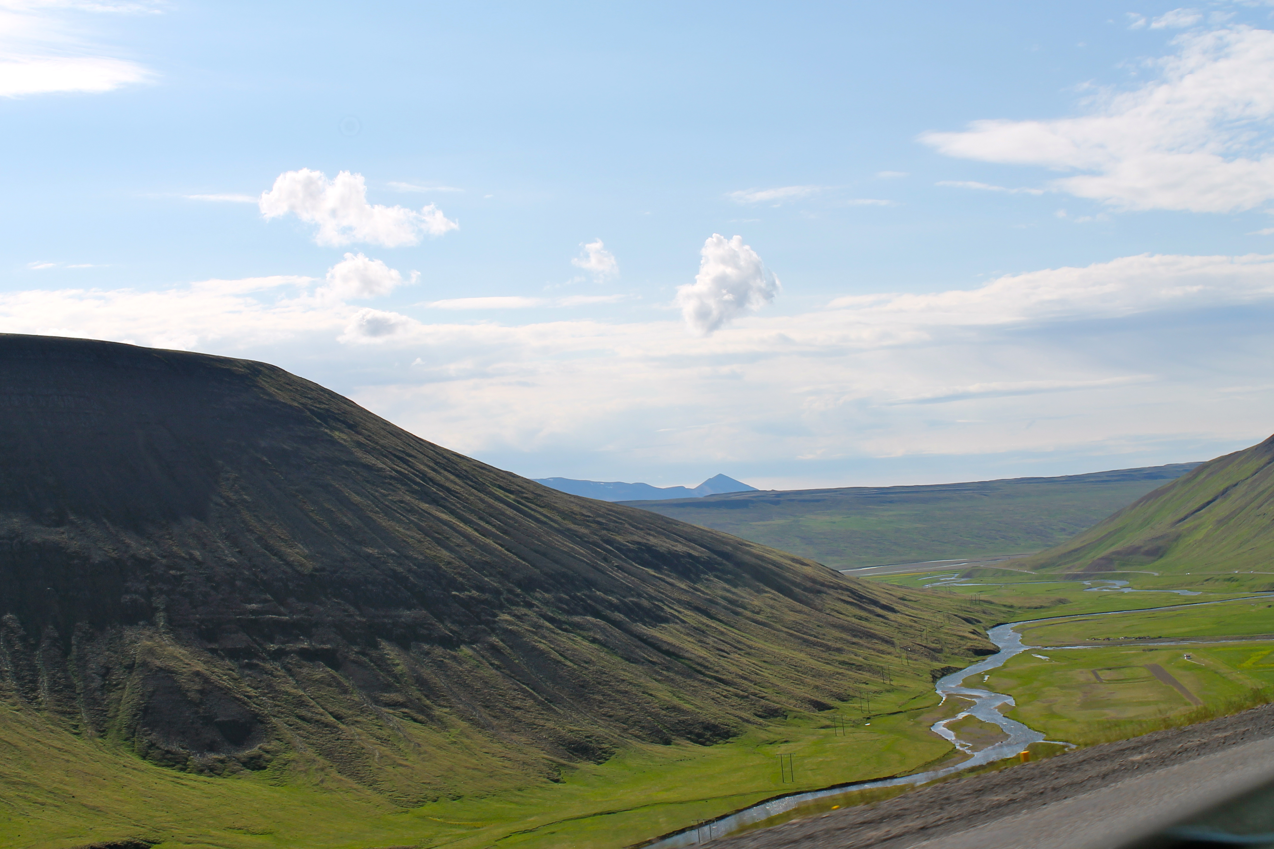 The mouth of Svartárdalur valley, Húnavatnssýsla, Northern Iceland.